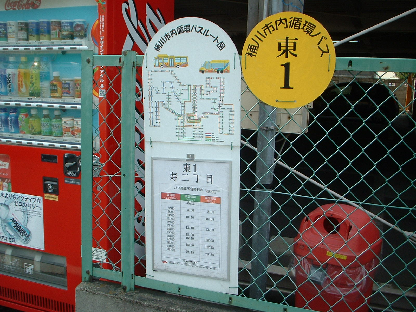 Benibana Go Kotobuki Nichome bus stop